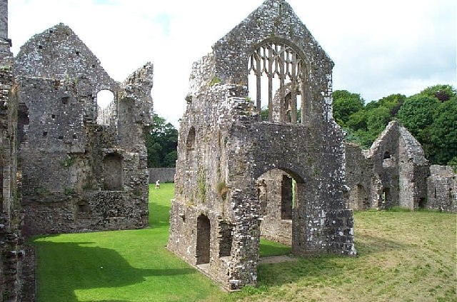 Bishop's Palace, Lamphey. In its heyday, the palace at Lamphey became a favourite residence of the bishops of St David's who "were worldly men who enjoyed the privileges of wealth, power and status".